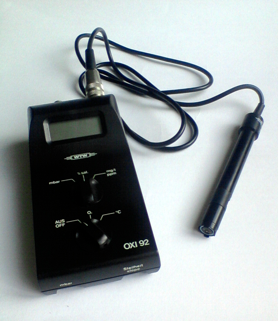 Oximeter